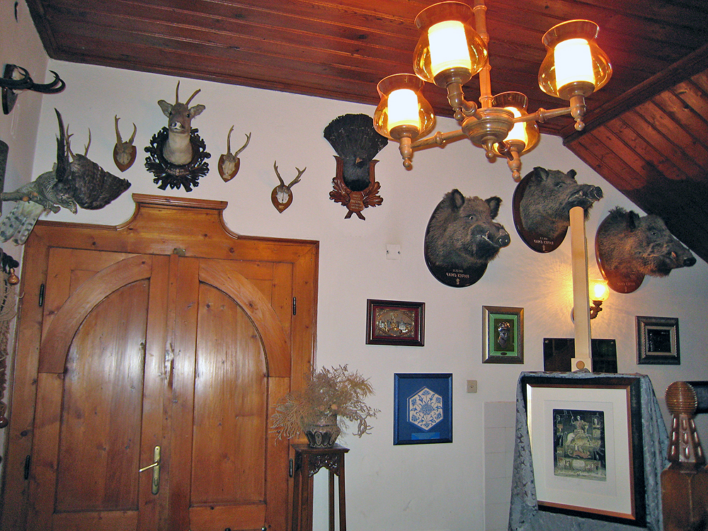 Royal hunting trophies from Tsarska Bistritsa Palace, Bulgaria